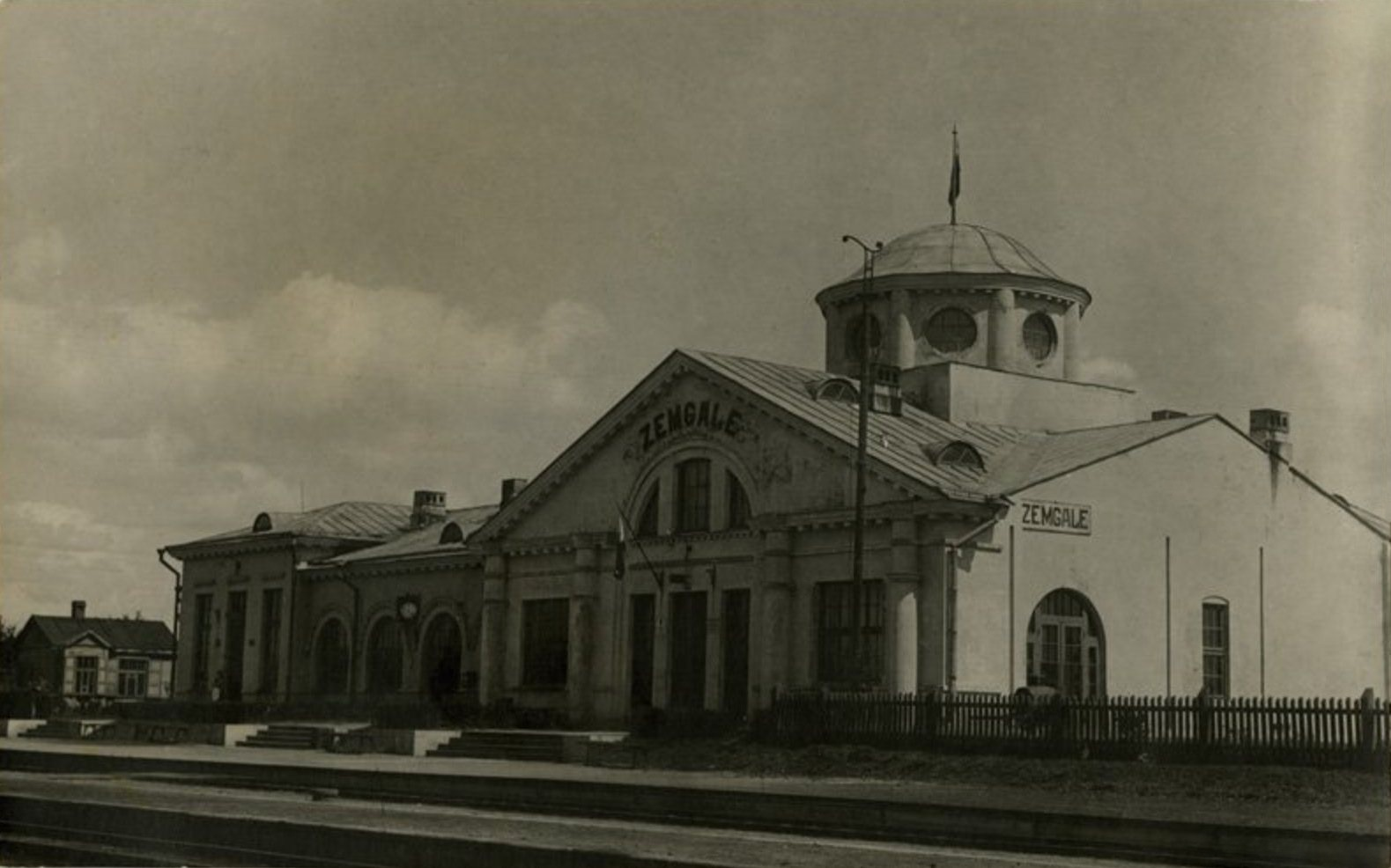 Zemgale railway station